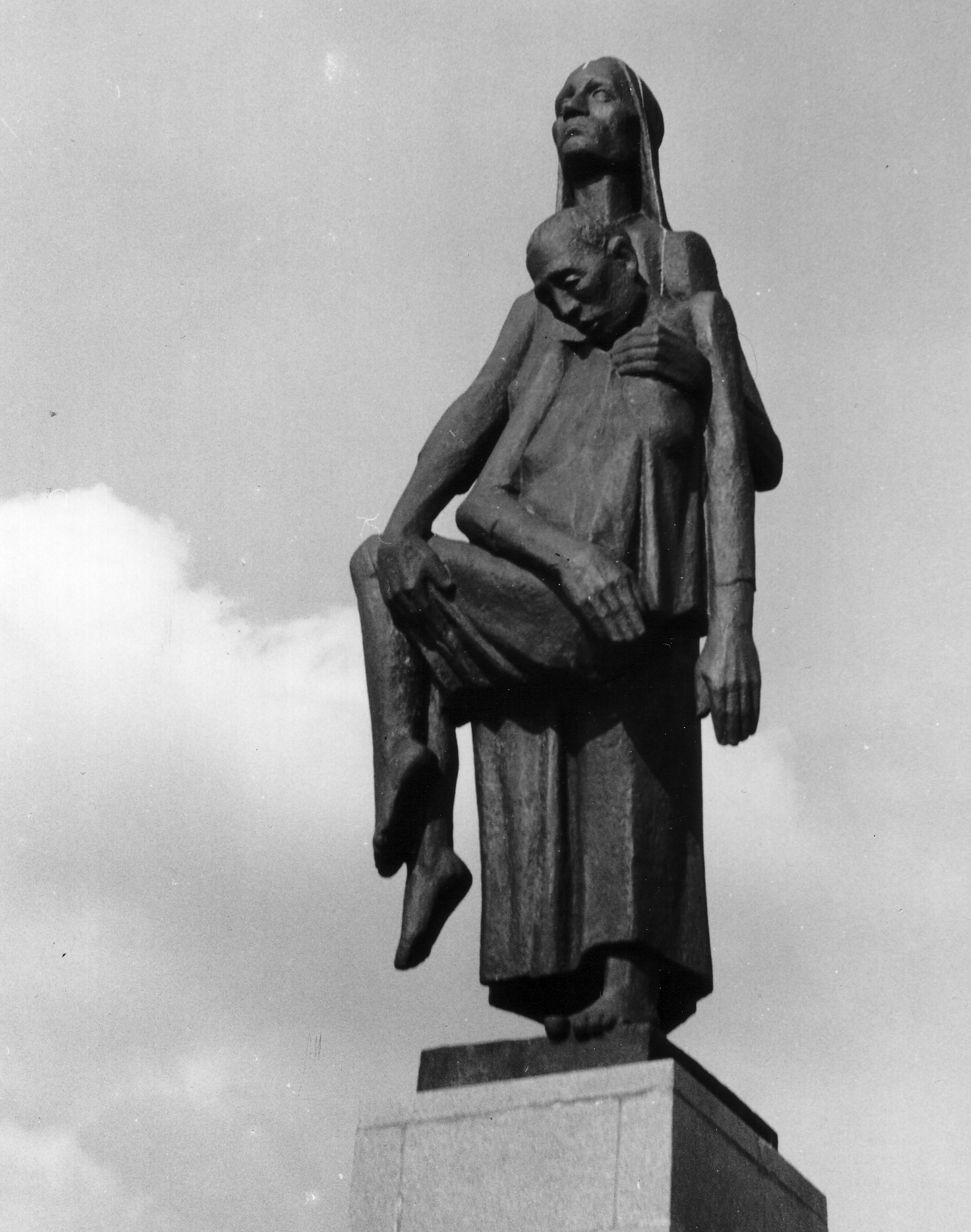 With permission by the legal sucessor Mark Lammert.